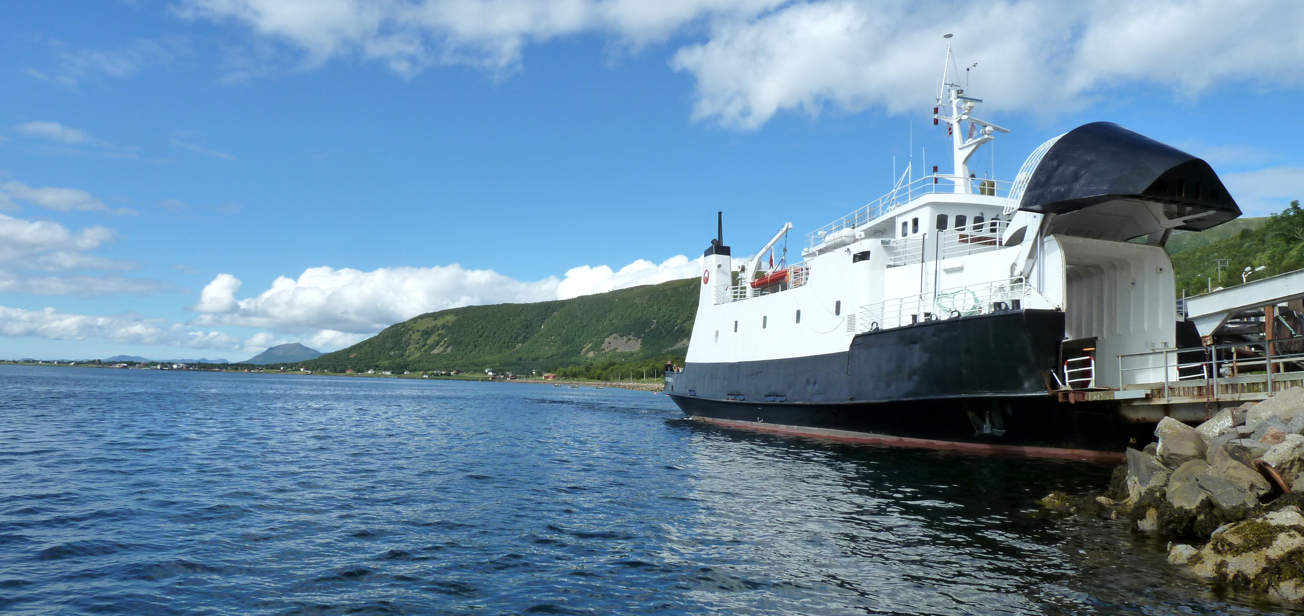 Carferry Lofotferje 1 in Kaljord in Hadsel, Norway.